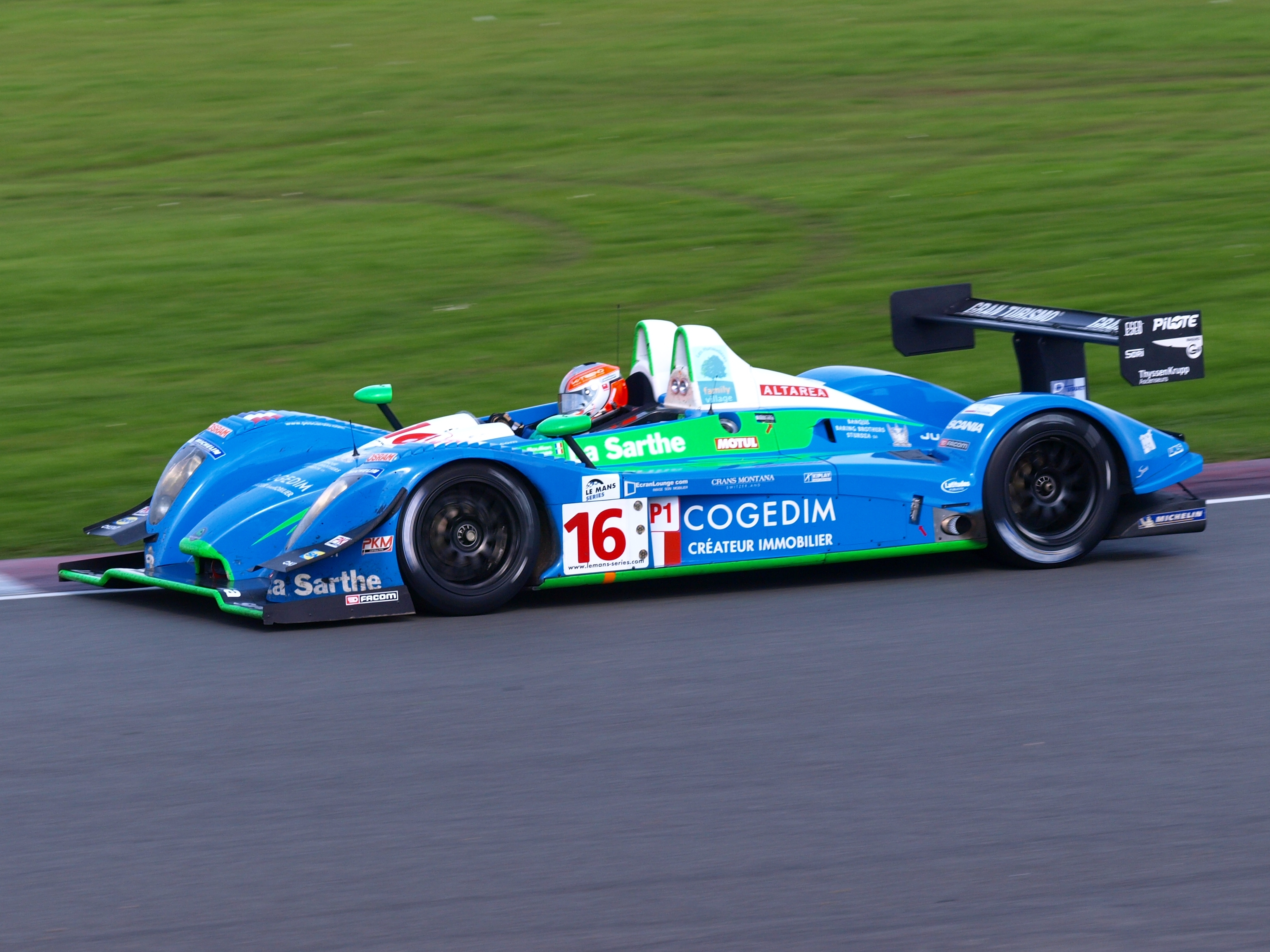 Pescarolo Sport's Pescarolo 01-Judd at the 2008 1000km of Silverstone.